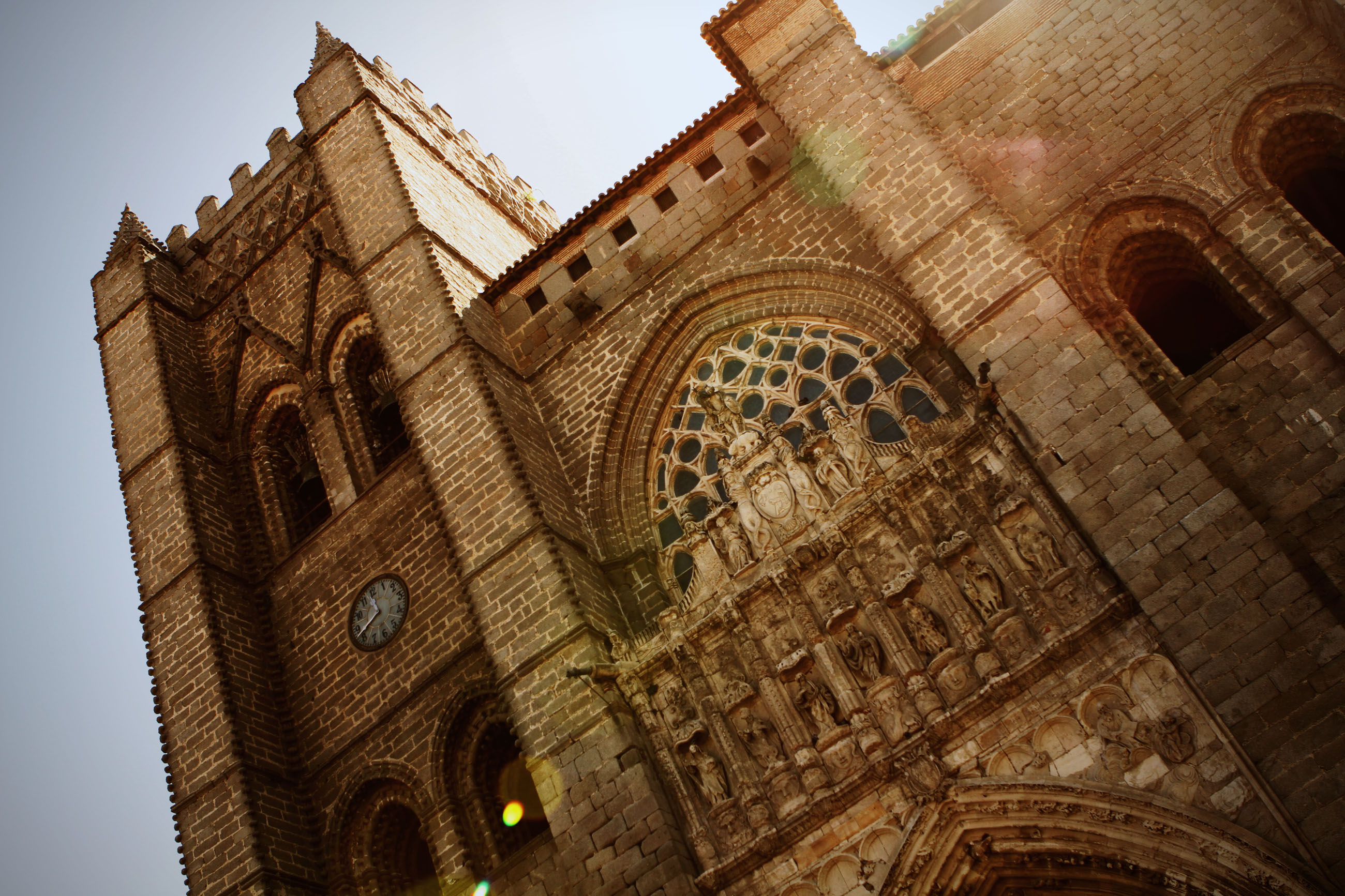 1/160s · f/5.6 · ISO 100 · 24 mm This fortress looking cathedral was built in the XII century in Ávila.